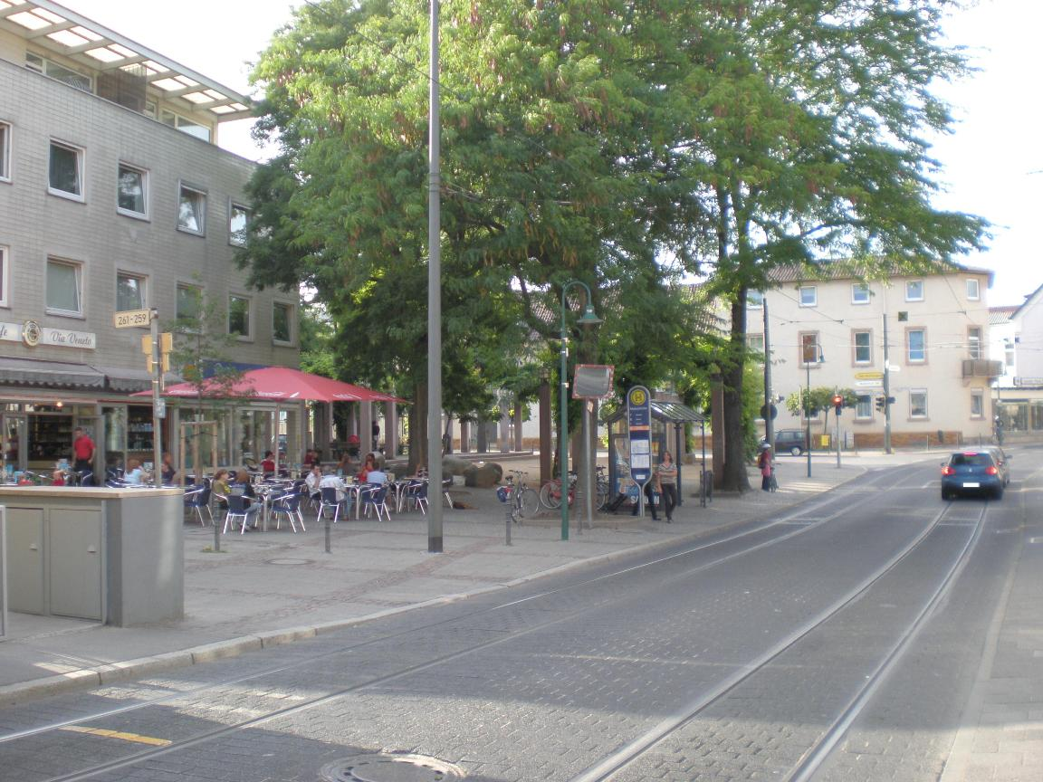 Shows Eberstadt Modaubrücke.